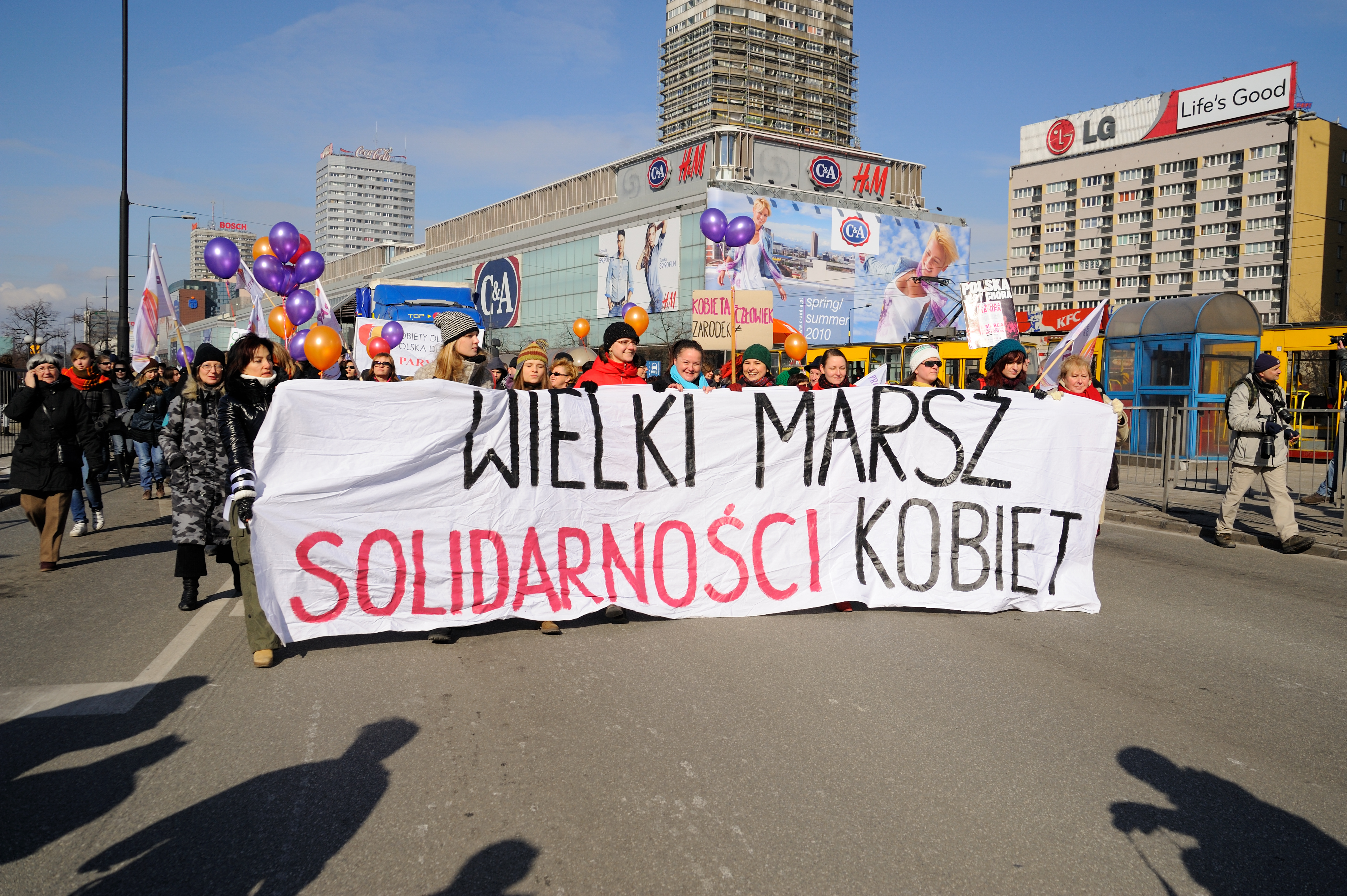 International Women's Day march in Warsaw, 2010.